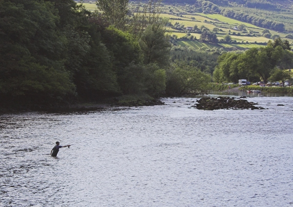 River Barrow Below St Mullins